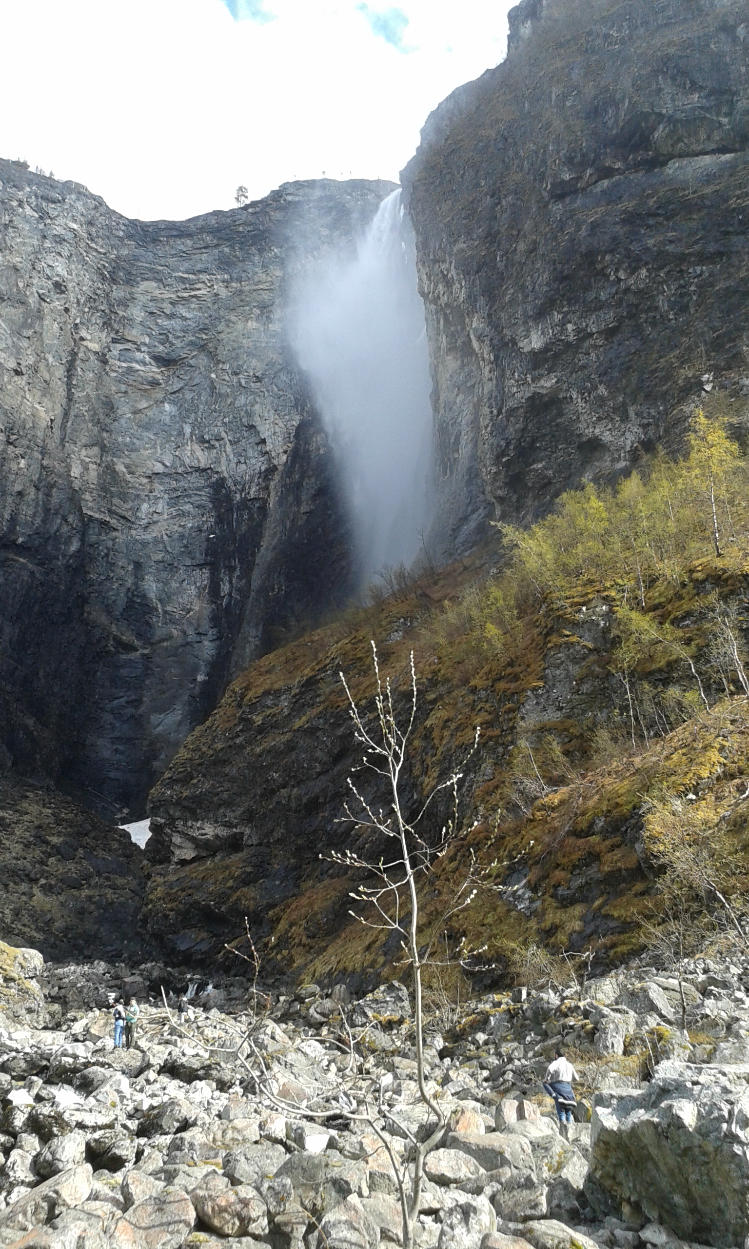 from the beach of Fosselvi (very noisy loud river)